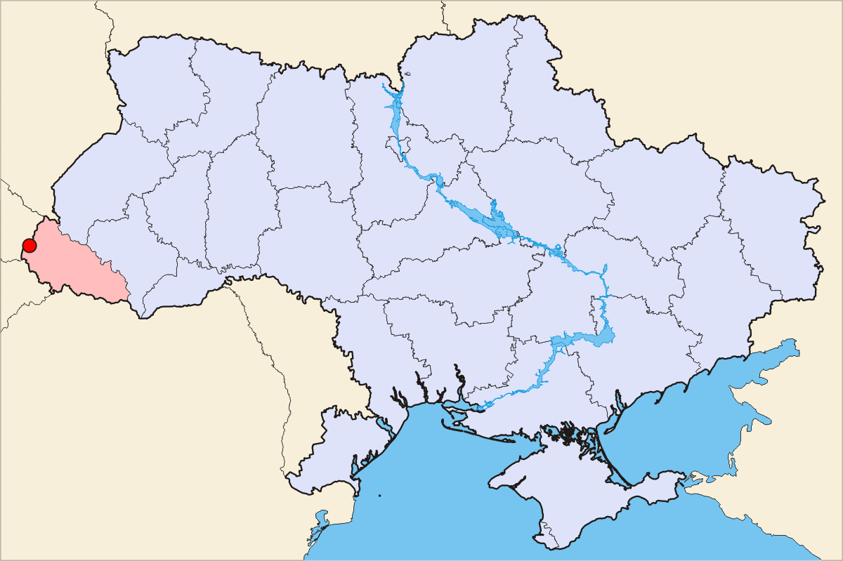 Description = Ushhorod geographical position Source = own work, Skluesener Date = 15.01.2006 Author = Skluesener Credits = Colours chosen according to a map of steschke